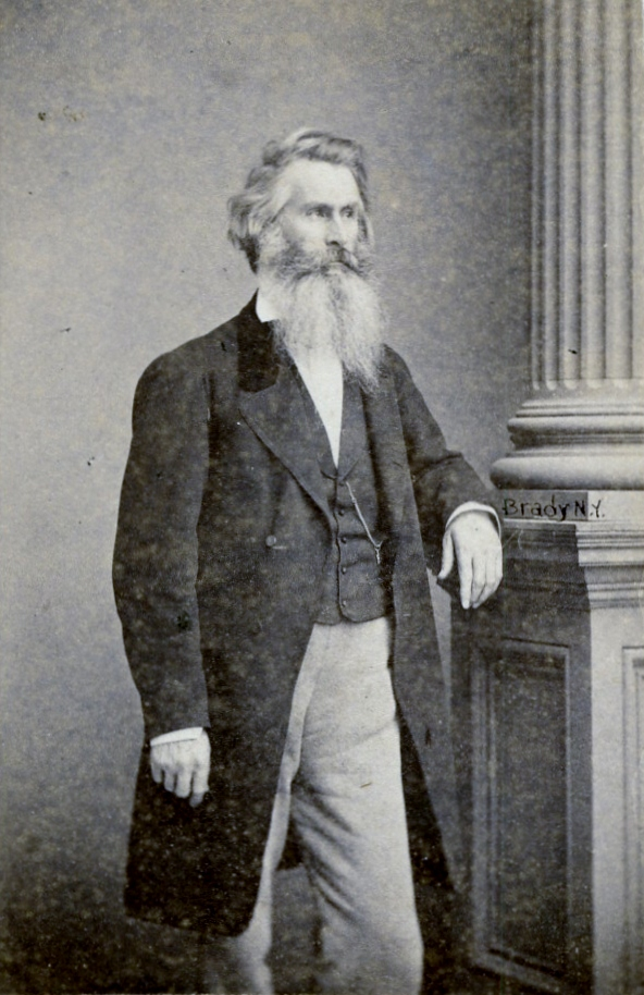 Erastus D. Palmer (1817-1904). Renowned sculptor. His best know work is probably “The White Captive.”